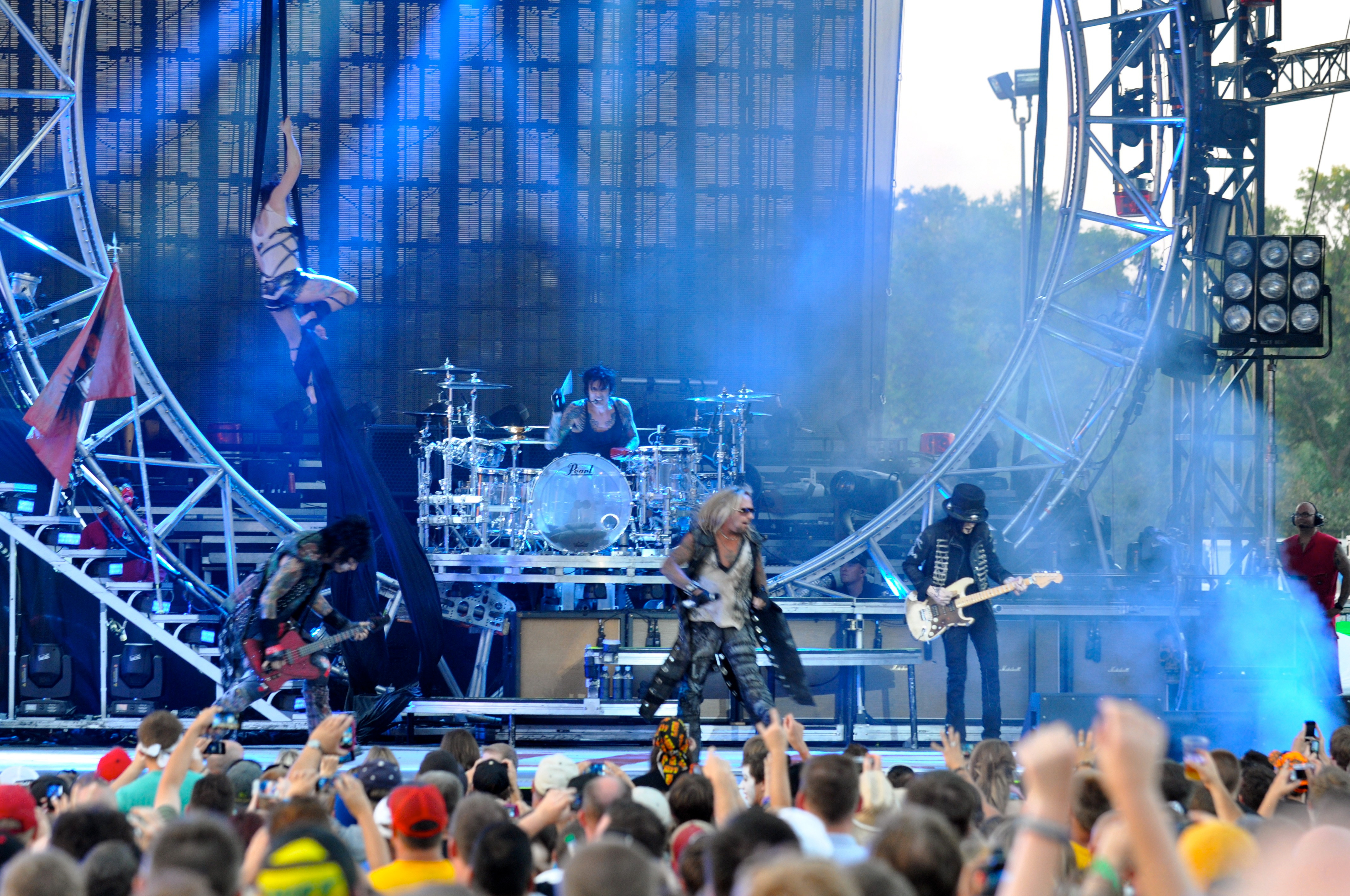 Motley Crue -DSC_1174- 8.29.12